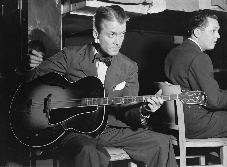 Portrait of Eddie Condon, Eddie Condon's, New York, N.Y.